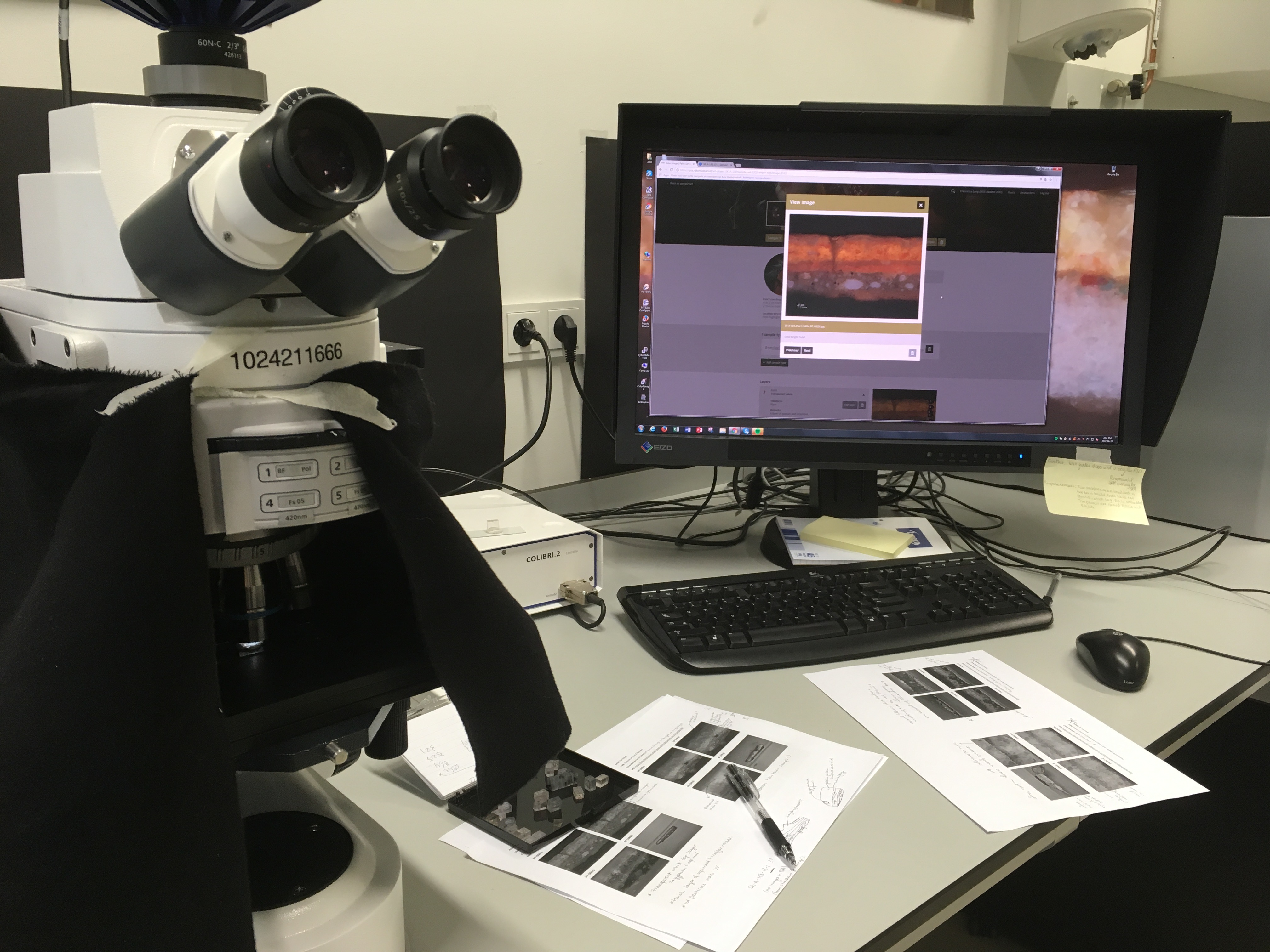 Optical microscope used for visual analysis of small paint samples to determine paint type and aid in identifying composition.